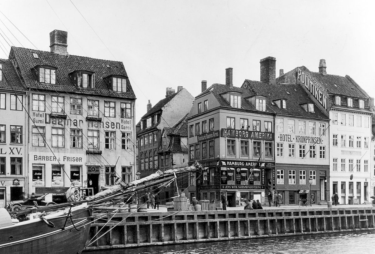 Nyhavn 17-21 and the end of Lille Strandstræde in Copenhagen, Denmark